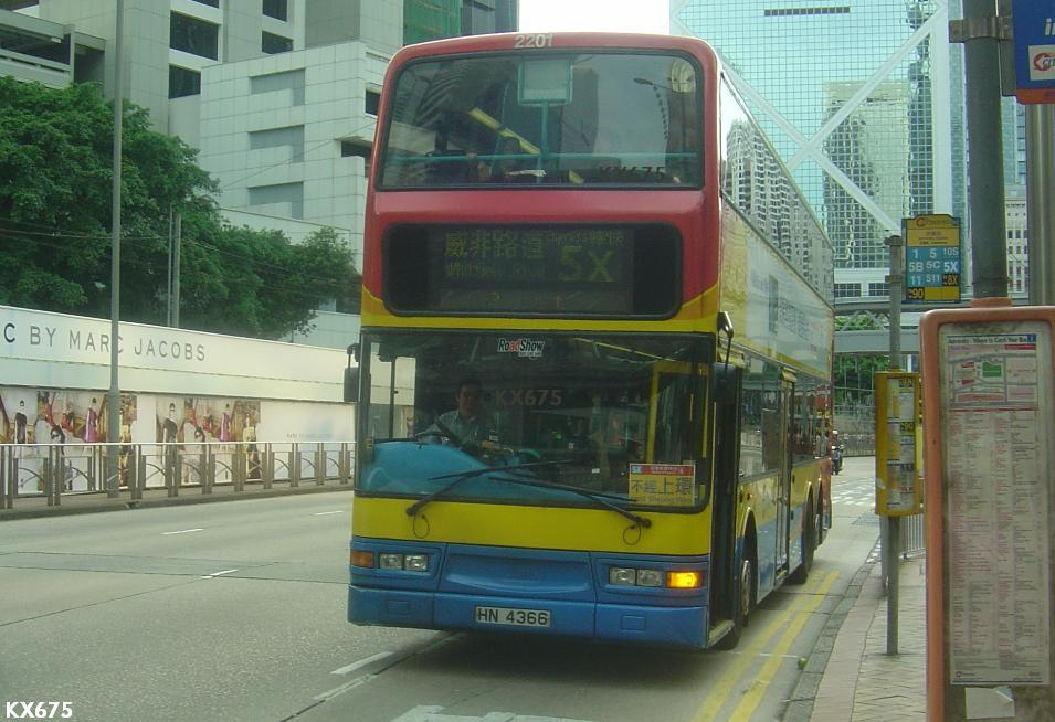 A Citybus Dennis Trident 3 (#2201) on route 5X. Photographed outside Admiralty MTR Station. 中文（香港）: 城巴一輛丹尼士三叉戟3型巴士（車隊編號2201）行走5X綫，駛經金鐘。